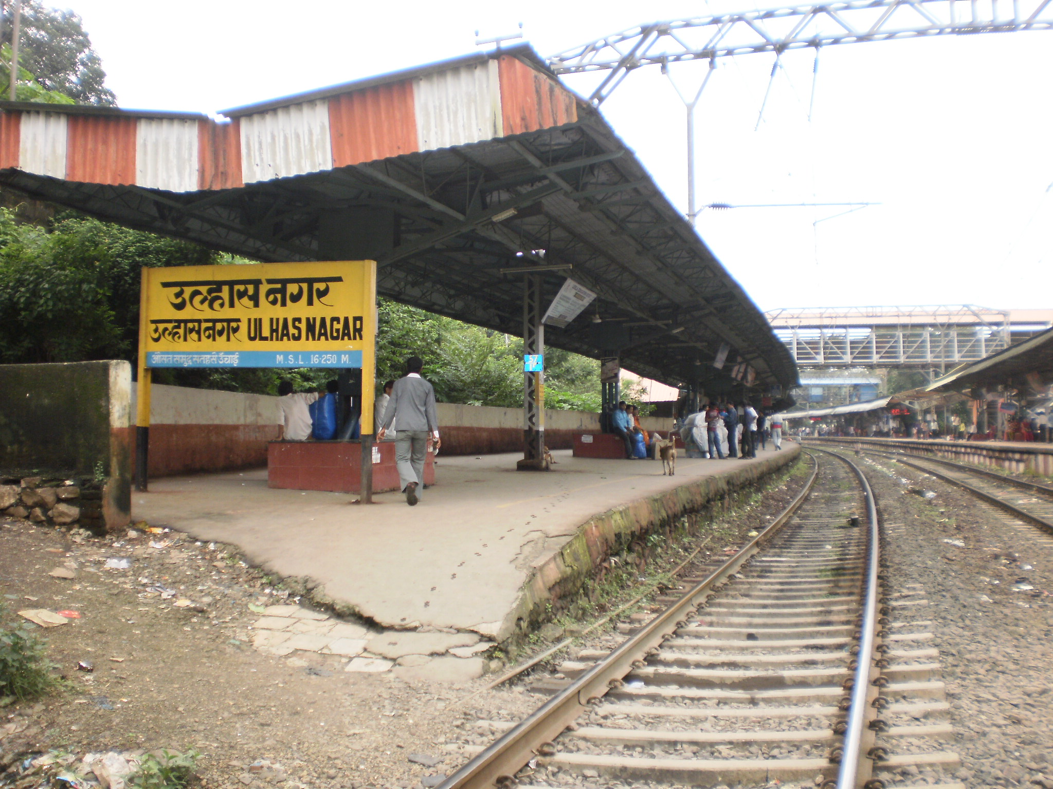 उल्हसनगर रेल्वे स्टेशन